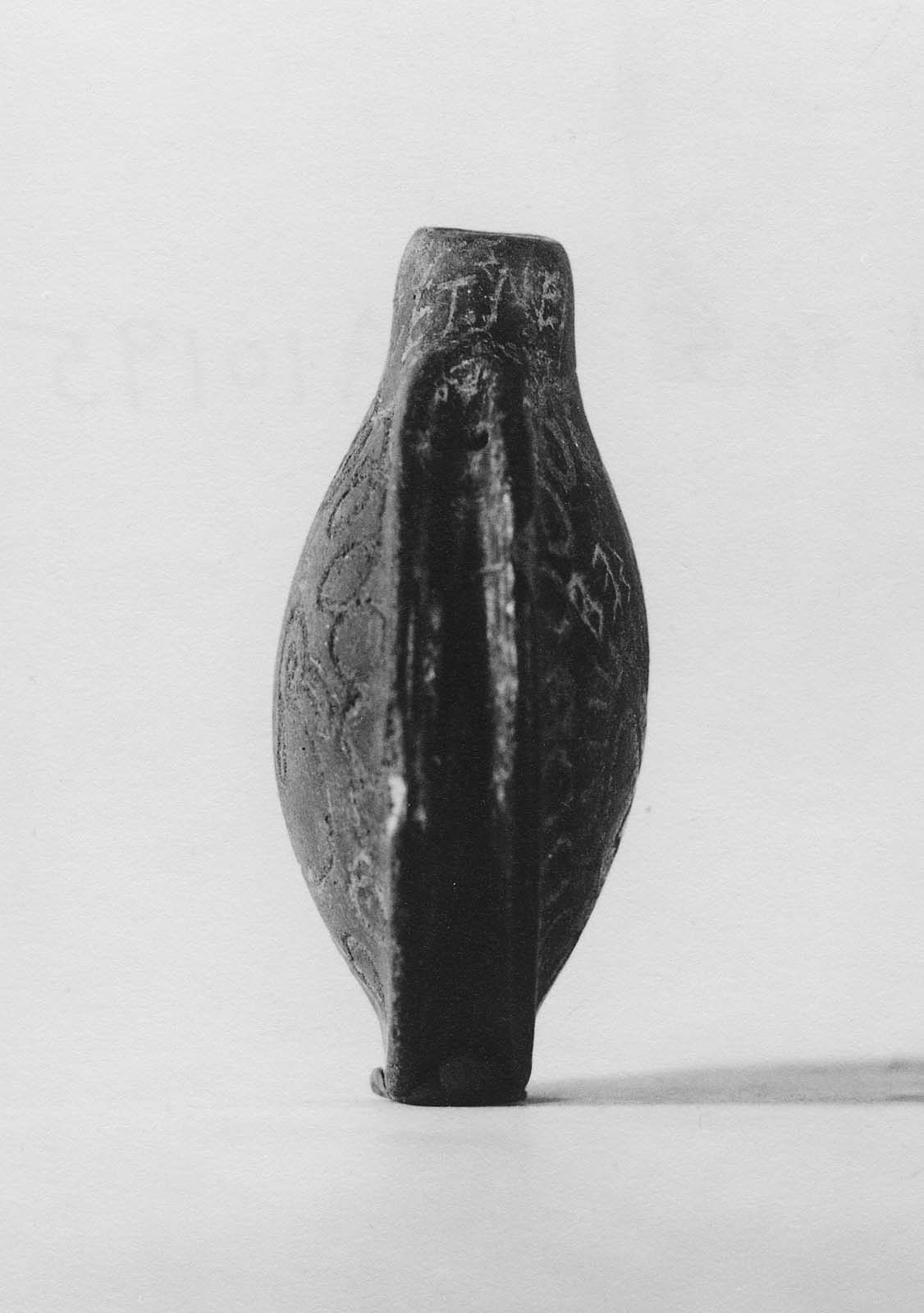 Fiaschetta pendaglio amuleto VII sec (A).c. con iscrizione, necropoli di Poggio Sommavilla tomba III, profilo.